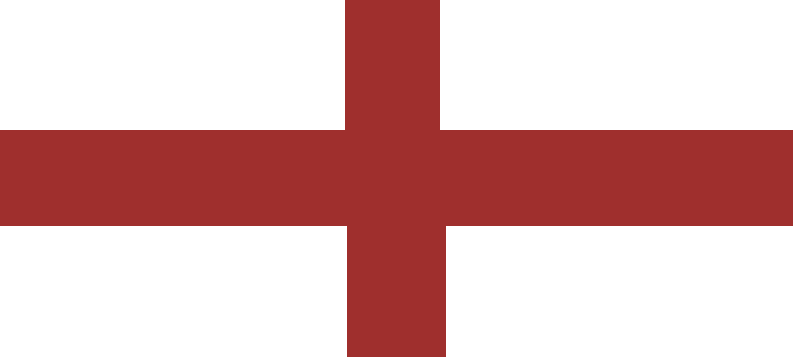 Ancient Georgian (Iberian) Flag during King Gorgasali reign in 5c. AD